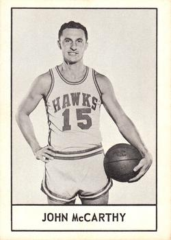 An image of St. Louis Hawks player John McCarthy.